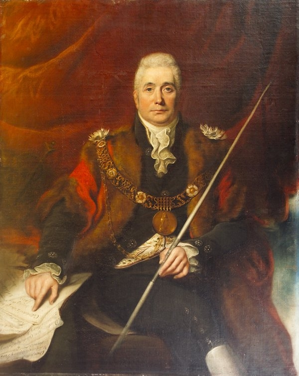 Portrait of John Claudius Beresford, the Irish politician. Beresford is seated and wearing the chain of office of the Lord Mayor of Dublin.